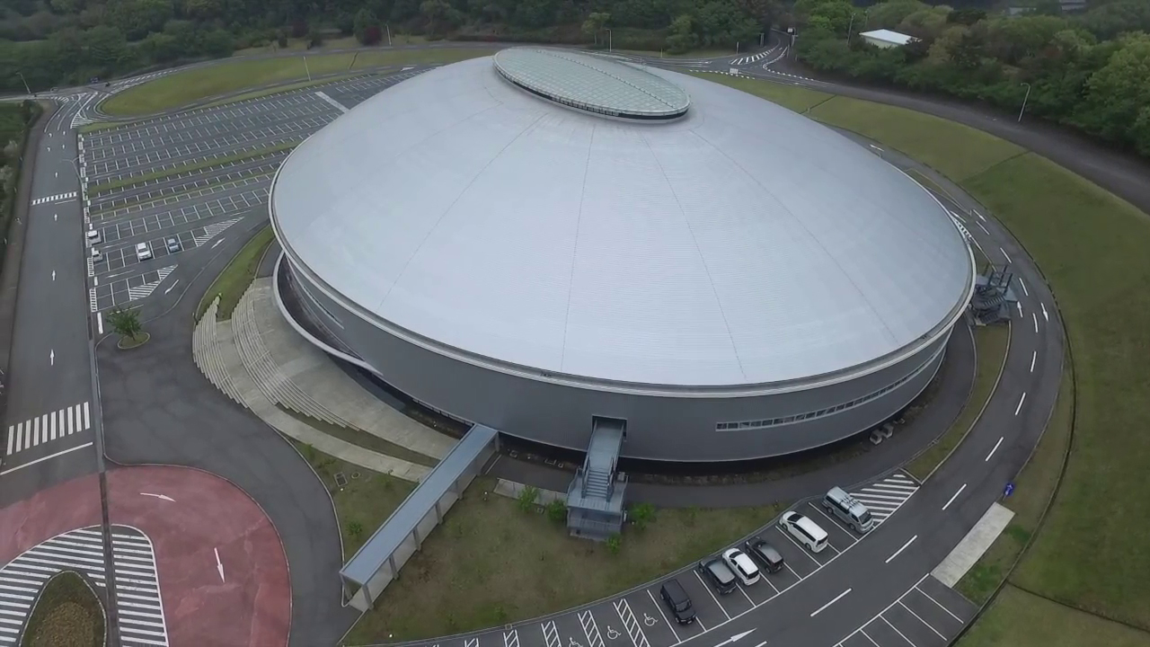 Aerial view of Izu Velodrome in Izu city, Shizuoka prefecture, Japan.